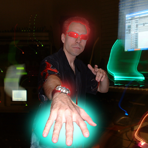 Frank Klepacki on an insert photo of his „Rocktronic“ (2004) album